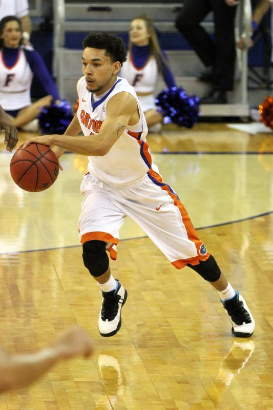 Jacksonville vs Florida Gators 2014/12/14